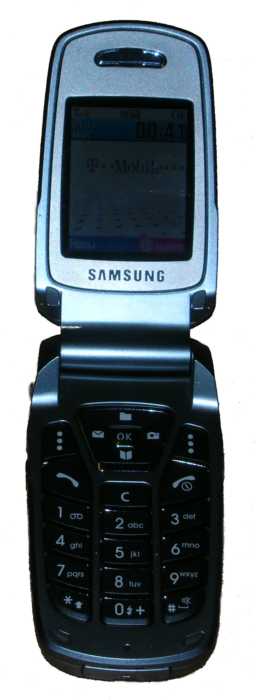 Samsung SGH-E720 phone, open, taken by myself. The background has been whited out. Also uploaded to Flickr (slightly different version).